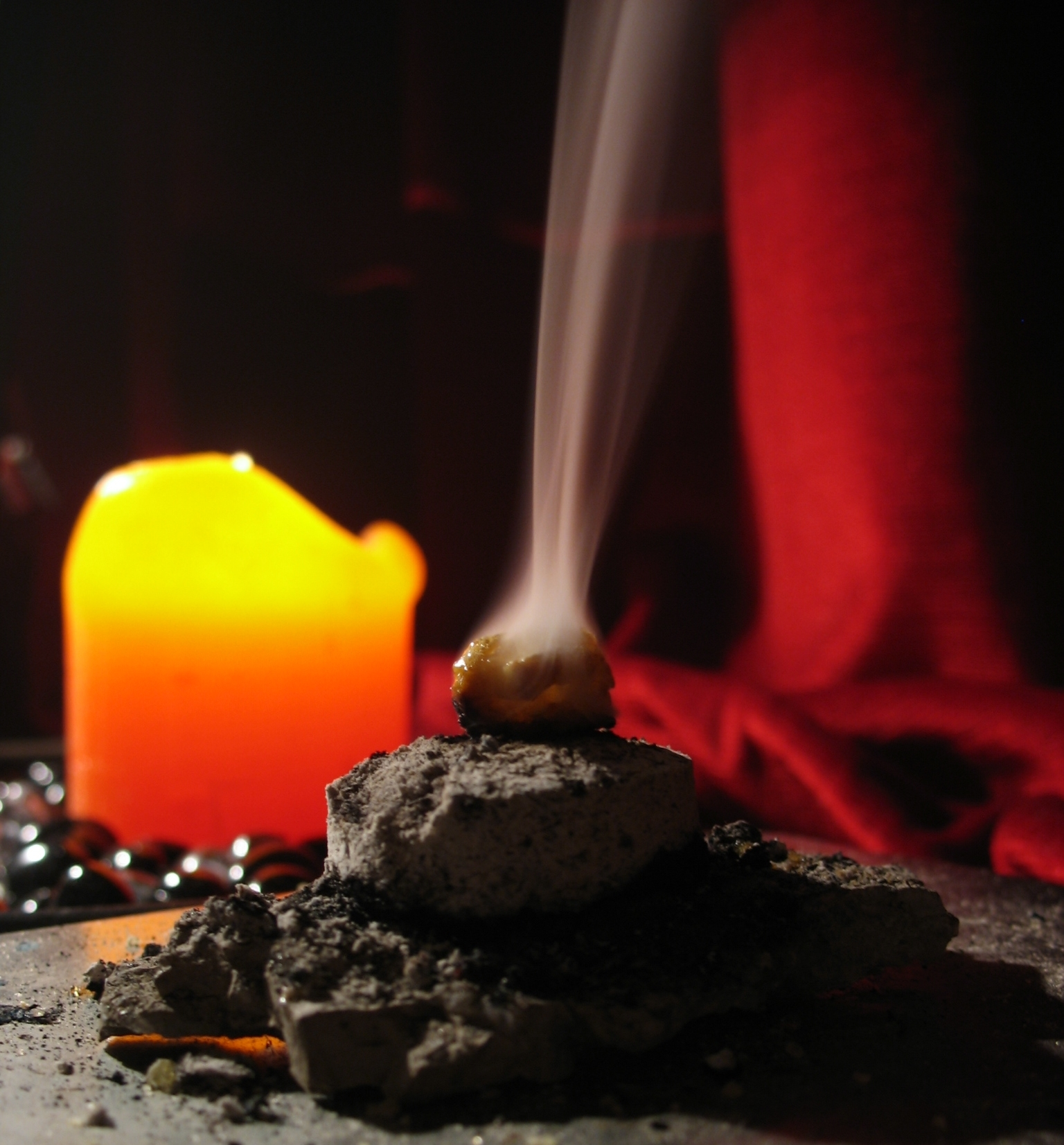 Incense. Frankincense on coal.